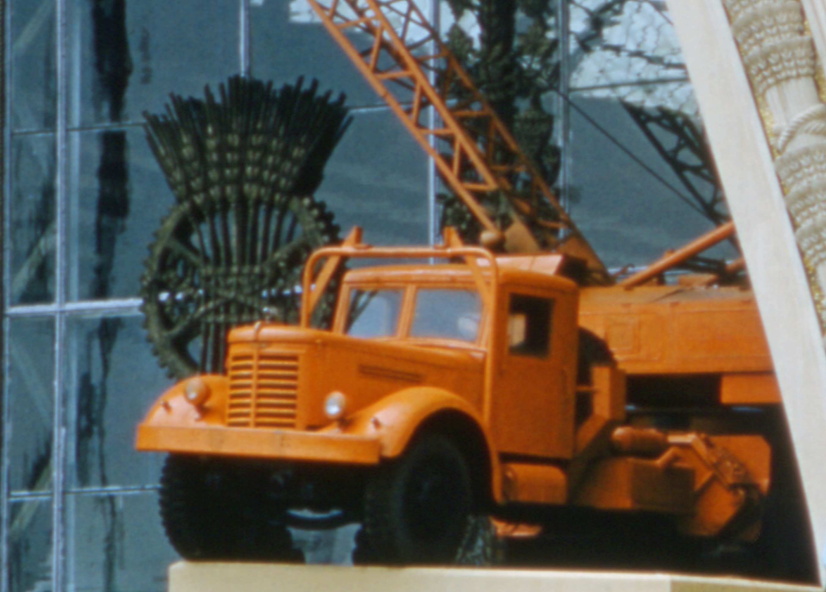 YaAZ-210-based crane truck K-104.